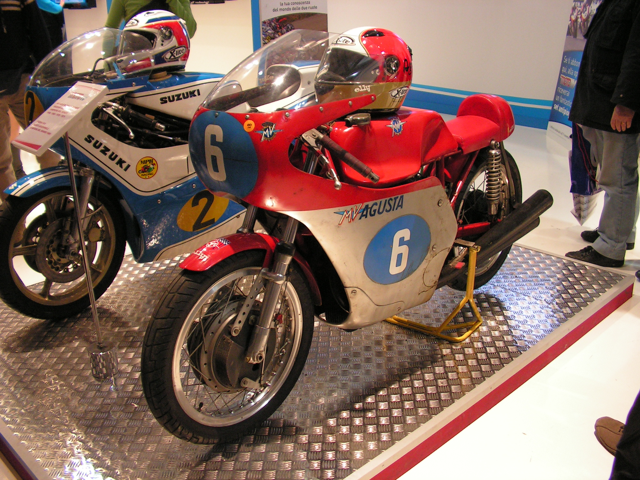 MV Agusta 350 3 cylinders used by Angelo Bergamonti in the 350 World Championship of 1970 - EICMA 2007, Milan (Italy).